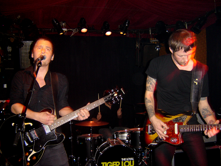 Tiger Lou live at Winston (Karl Rasmus Kellerman and Mathias Johansson)